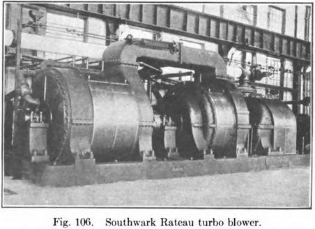 Rateau turbo blower installed at the Southwark Foundry & Machine Company blast furnaces, Philadelphia, United States, about 1915.